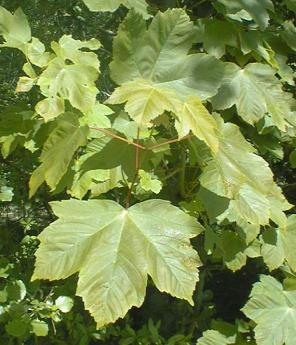 Species: Acer pseudoplatanus; Family: Aceraceae (or Sapindaceae).